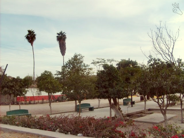 rancho en lerdo dgo